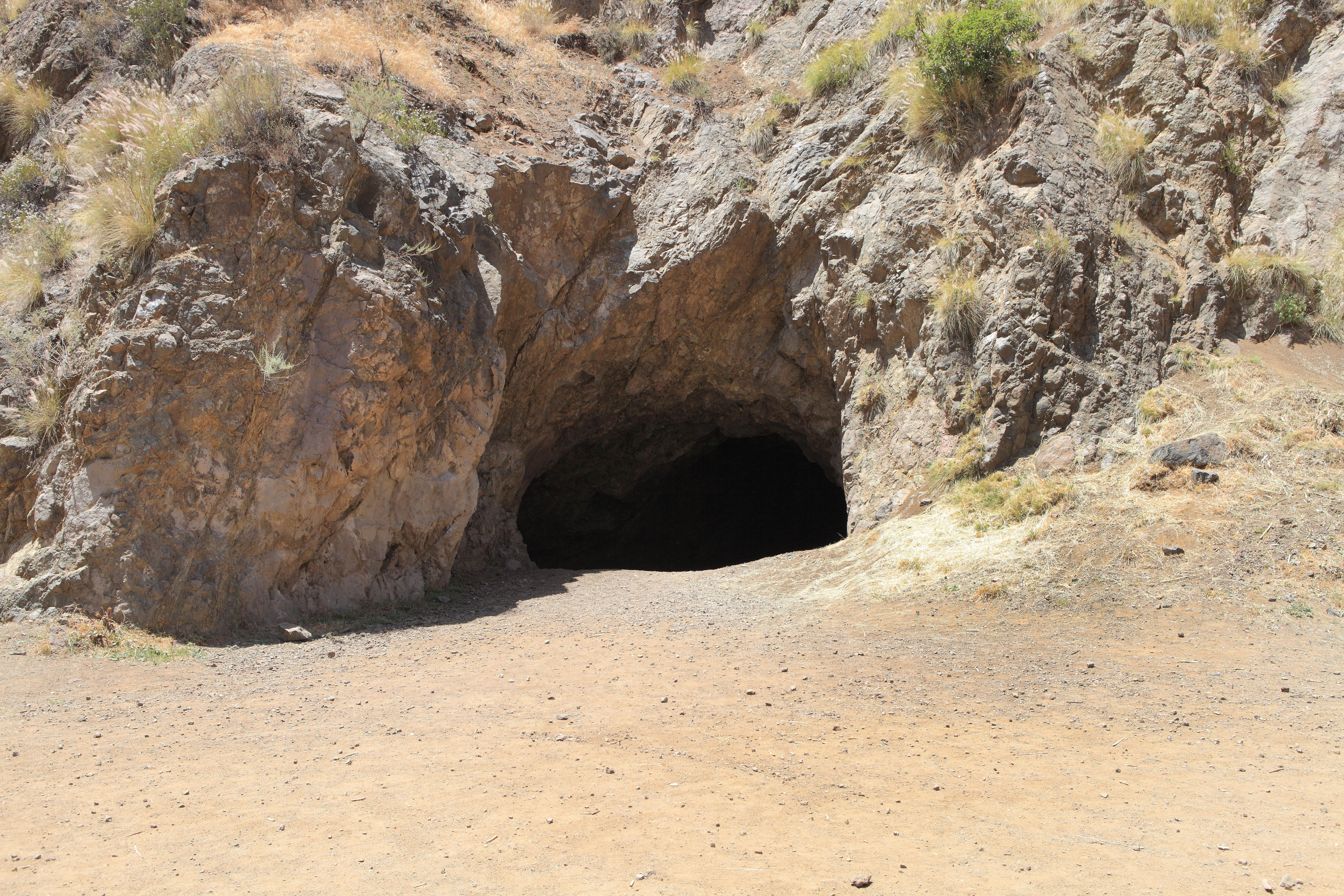 Bronson Canyon, Griffith Park. Back of Bronson Cave in Los Angeles, California. This location has been used in numerous films and television shows. It was used as Owl Cave in the television series "Twin Peaks".